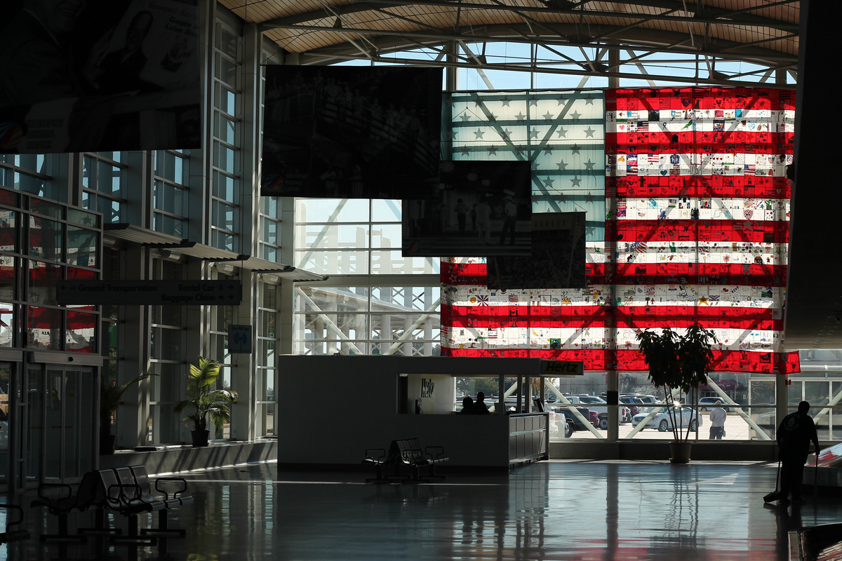 The ticketing level of Shreveport Regional Airport